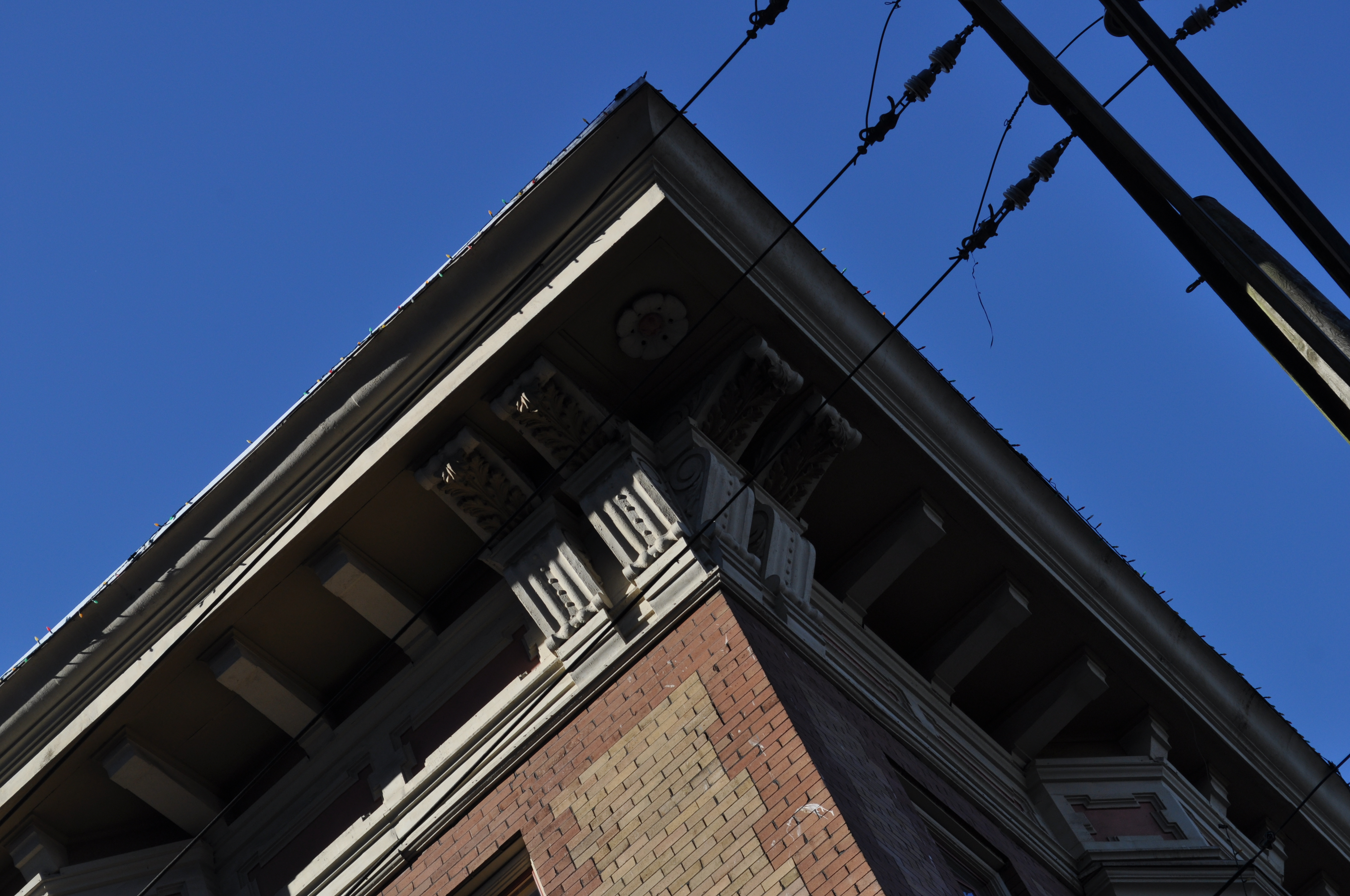 Cornice of The Manhattan, at Robson and Thurlow, Vancouver, BC.